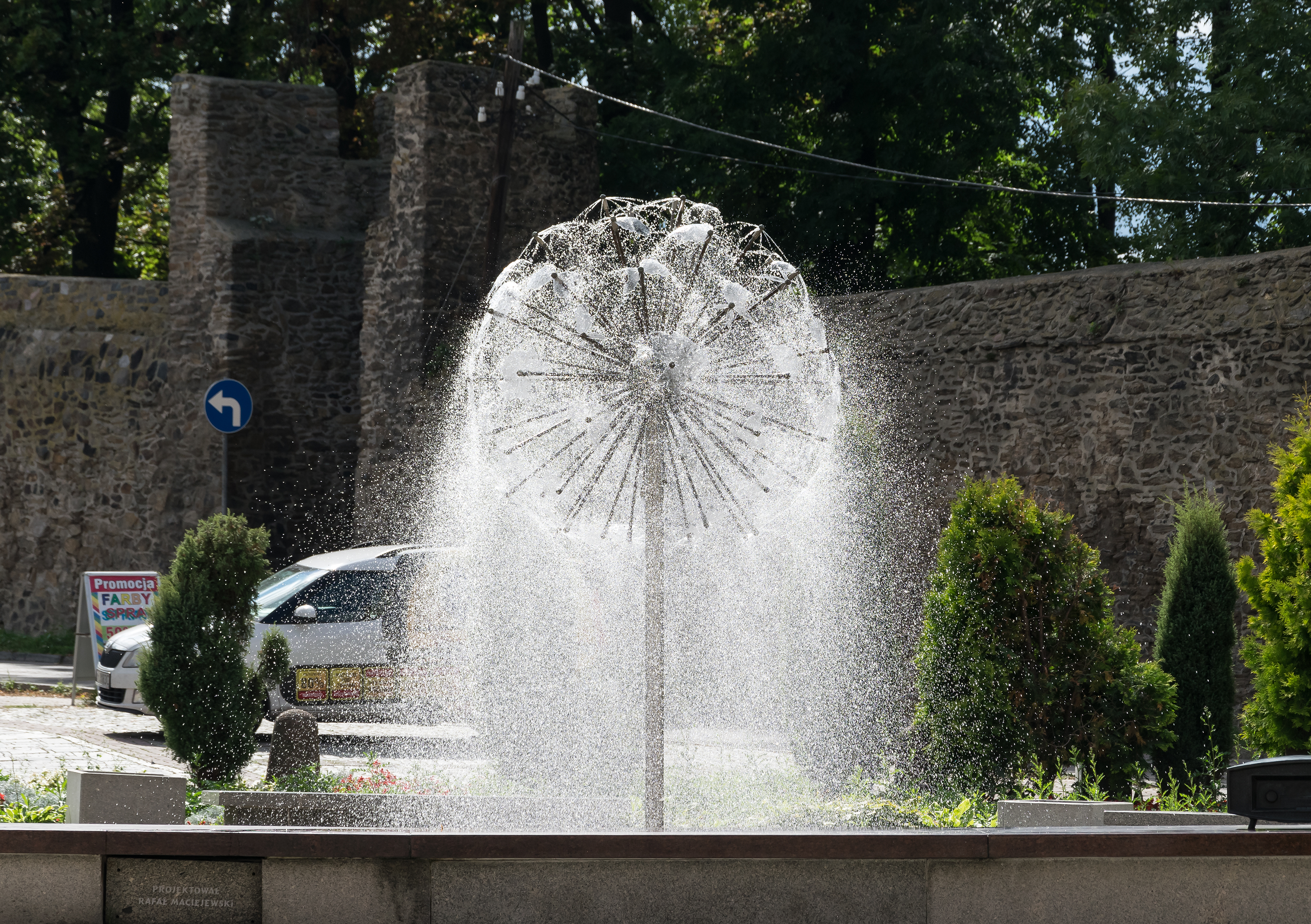 Fountain in Dzierżoniów